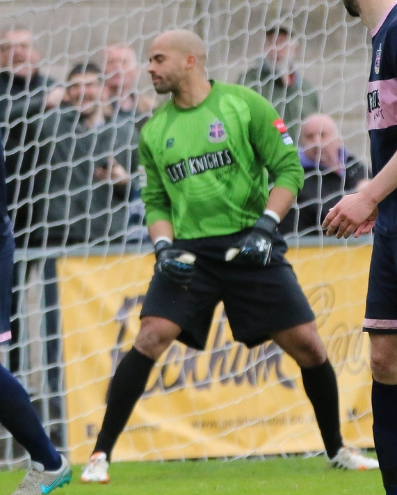 Association football goalkeeper Preston Edwards playing for Dulwich Hamlet in April 2016.